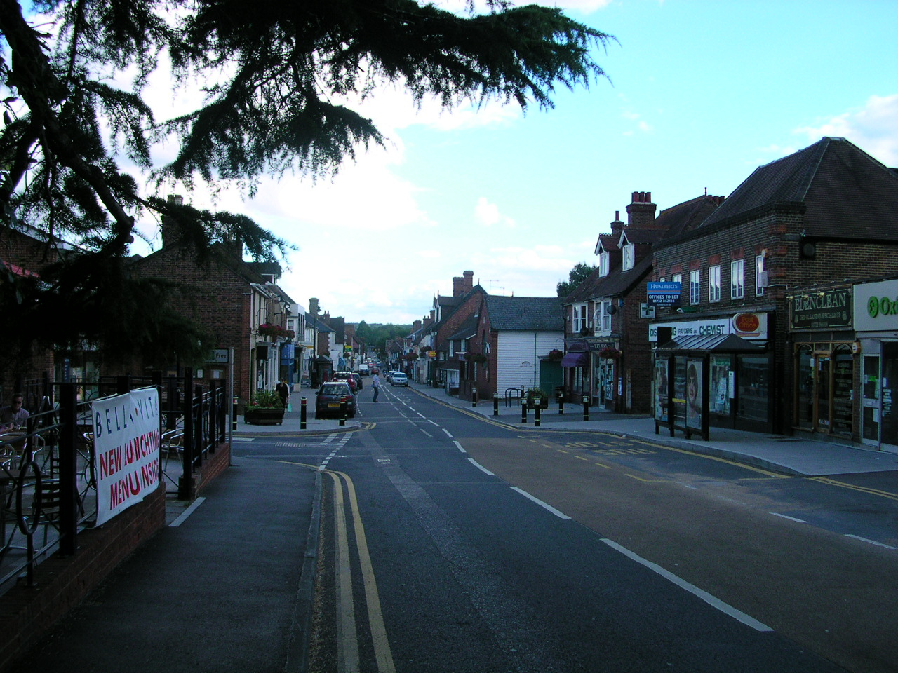 Edenbridge Street, East Sussex, England.